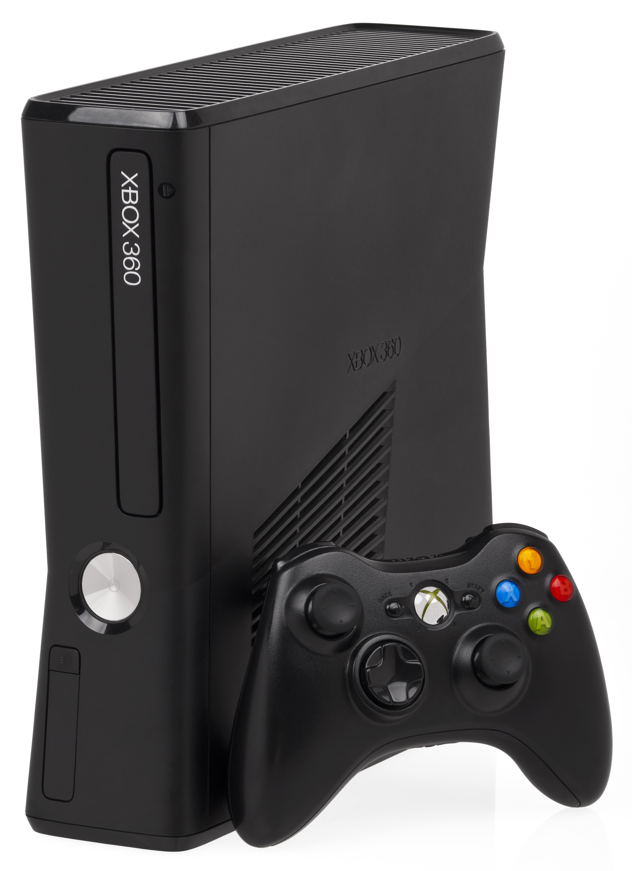 An Xbox 360 S shown with included controller. A matte-finish 4GB version, model 1439.